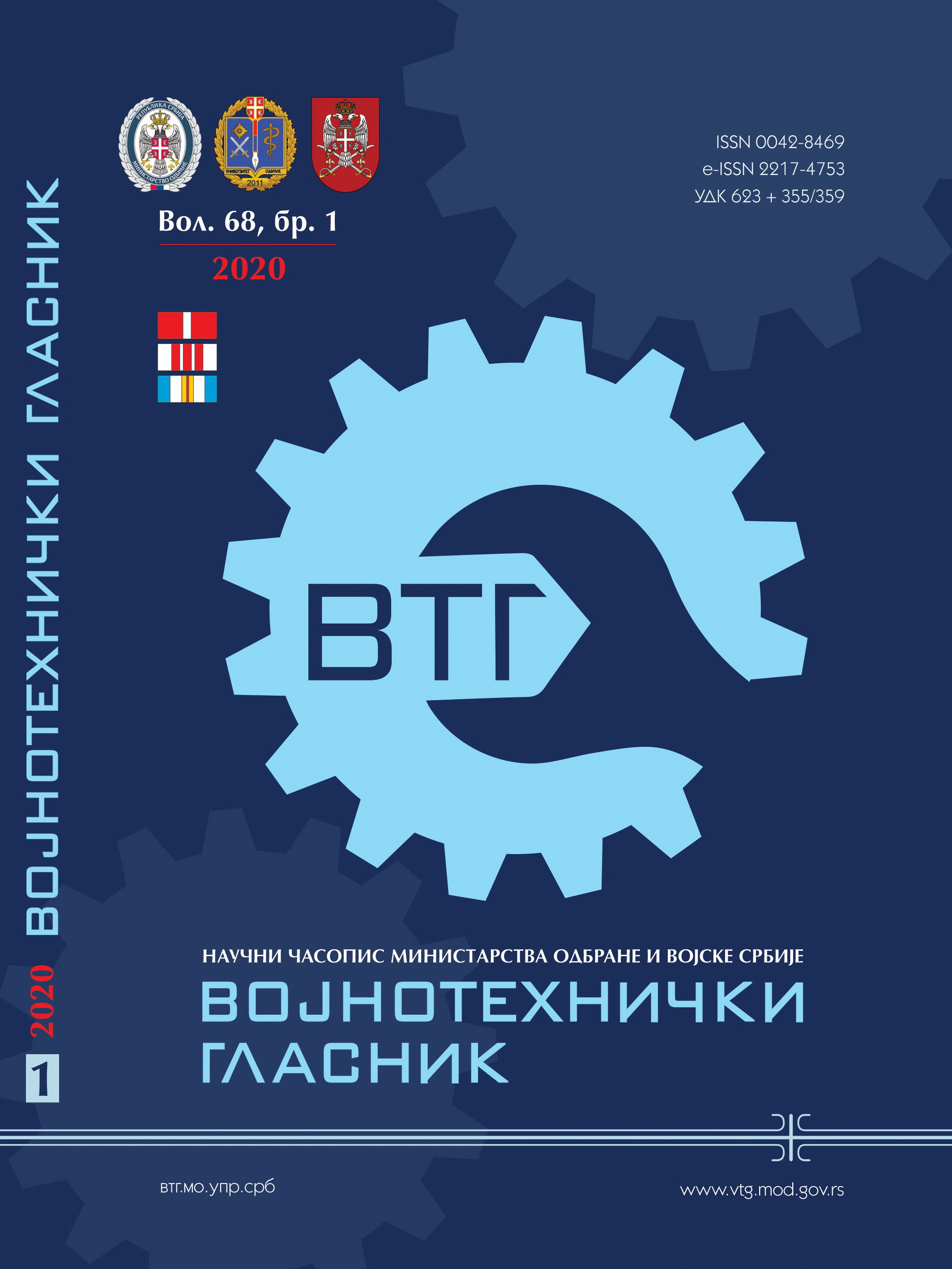 Cover of journal Military Technical Courier in Serbian (Cyrillic)